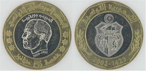 5 Tunisian Dinars